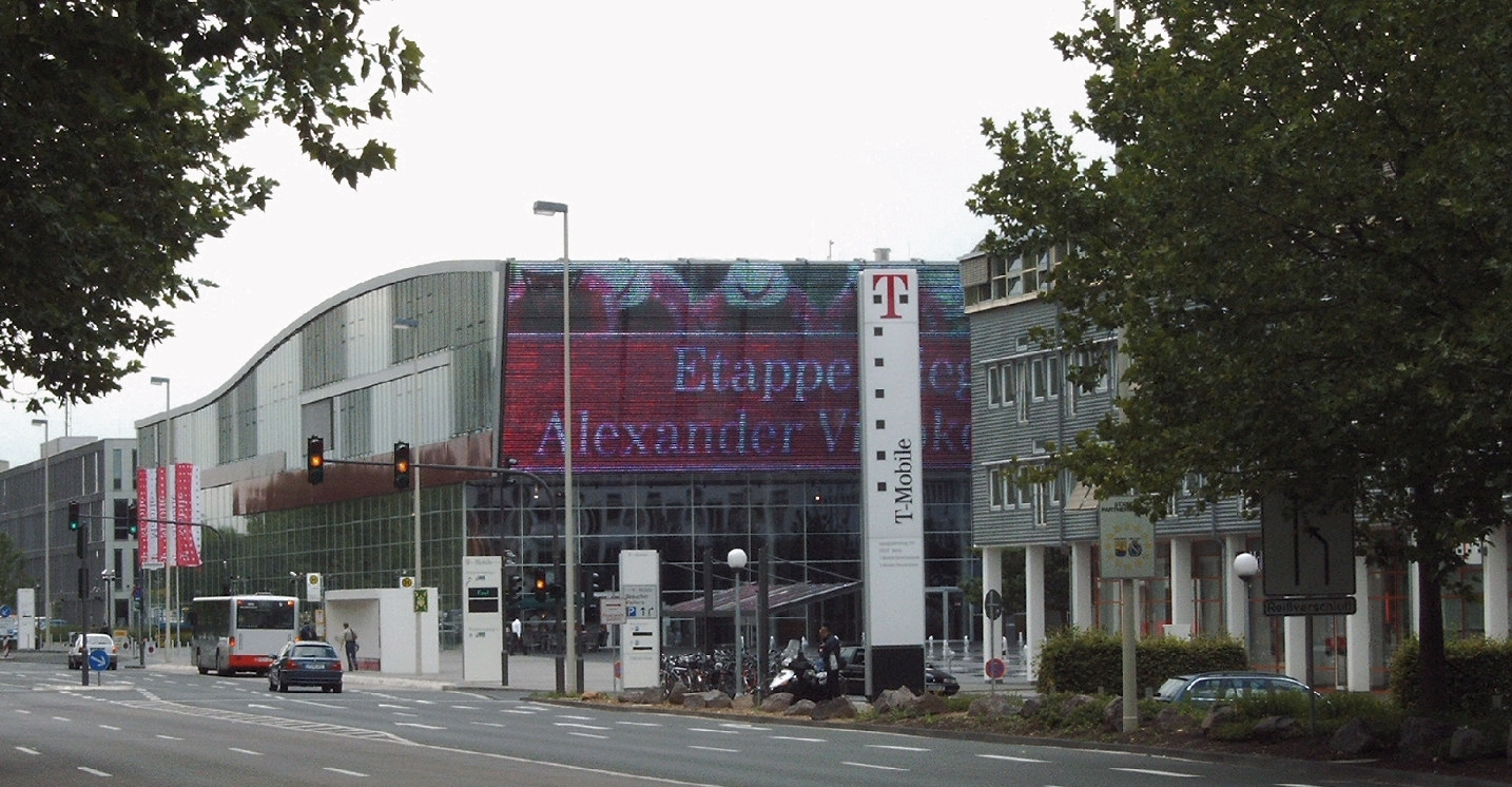 T-Mobile international and german headquarters in Bonn-Ramersdorf.